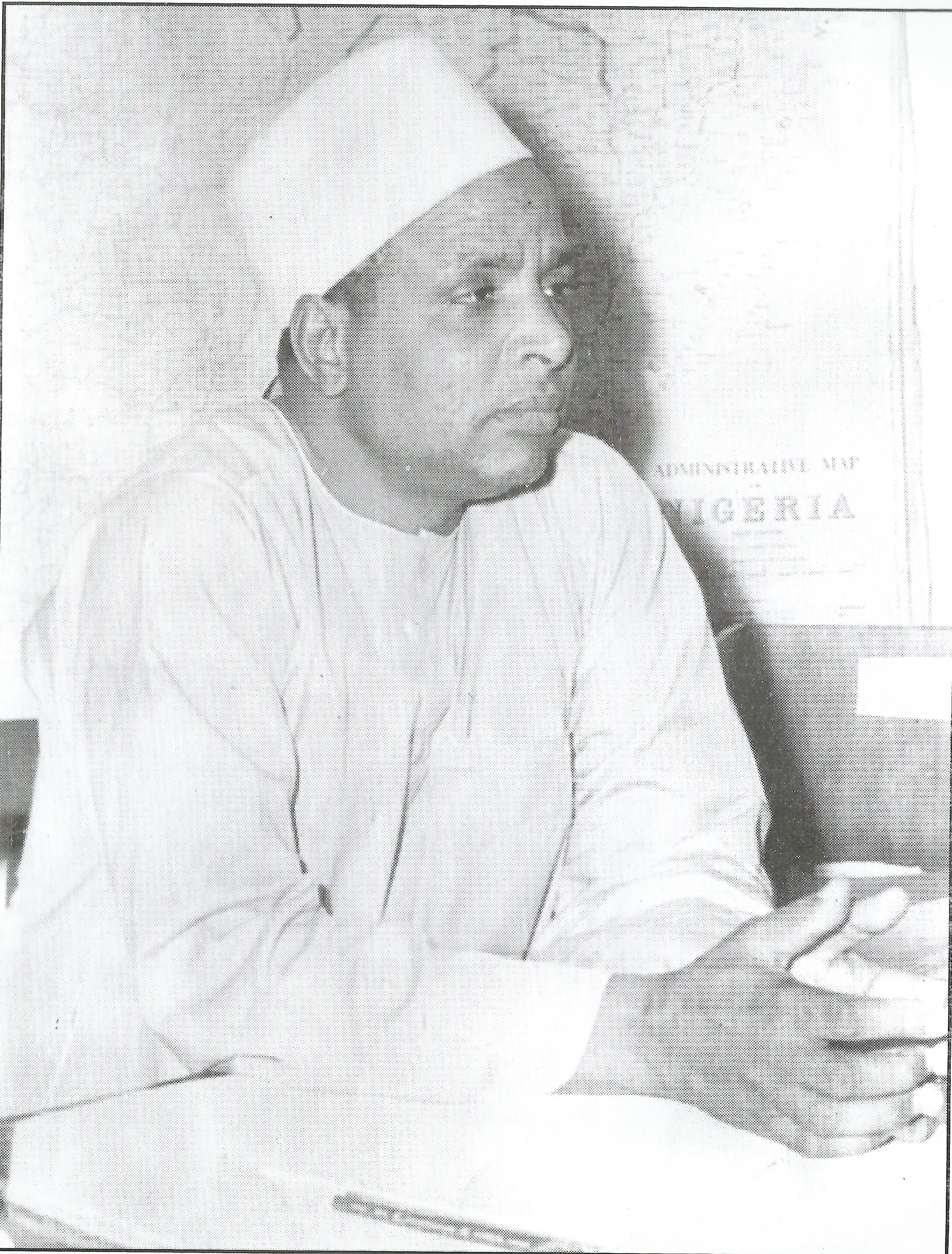 Musa Daggash in his office as the Permanent Secretary Ministry of Transport in 1967